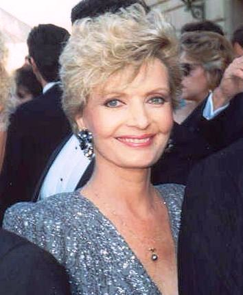 Florence Henderson at 1989 Emmy Awards